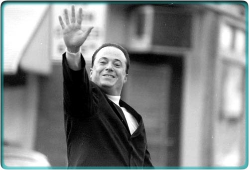 Reputed mobster George Borgesi pictured in an FBI surveillance photo.